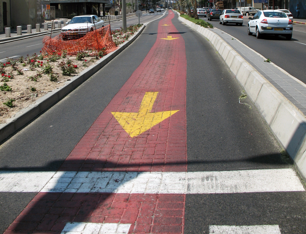 Example of completed track of the Metronit, a BRT system being constructed in Haifa, Israel.